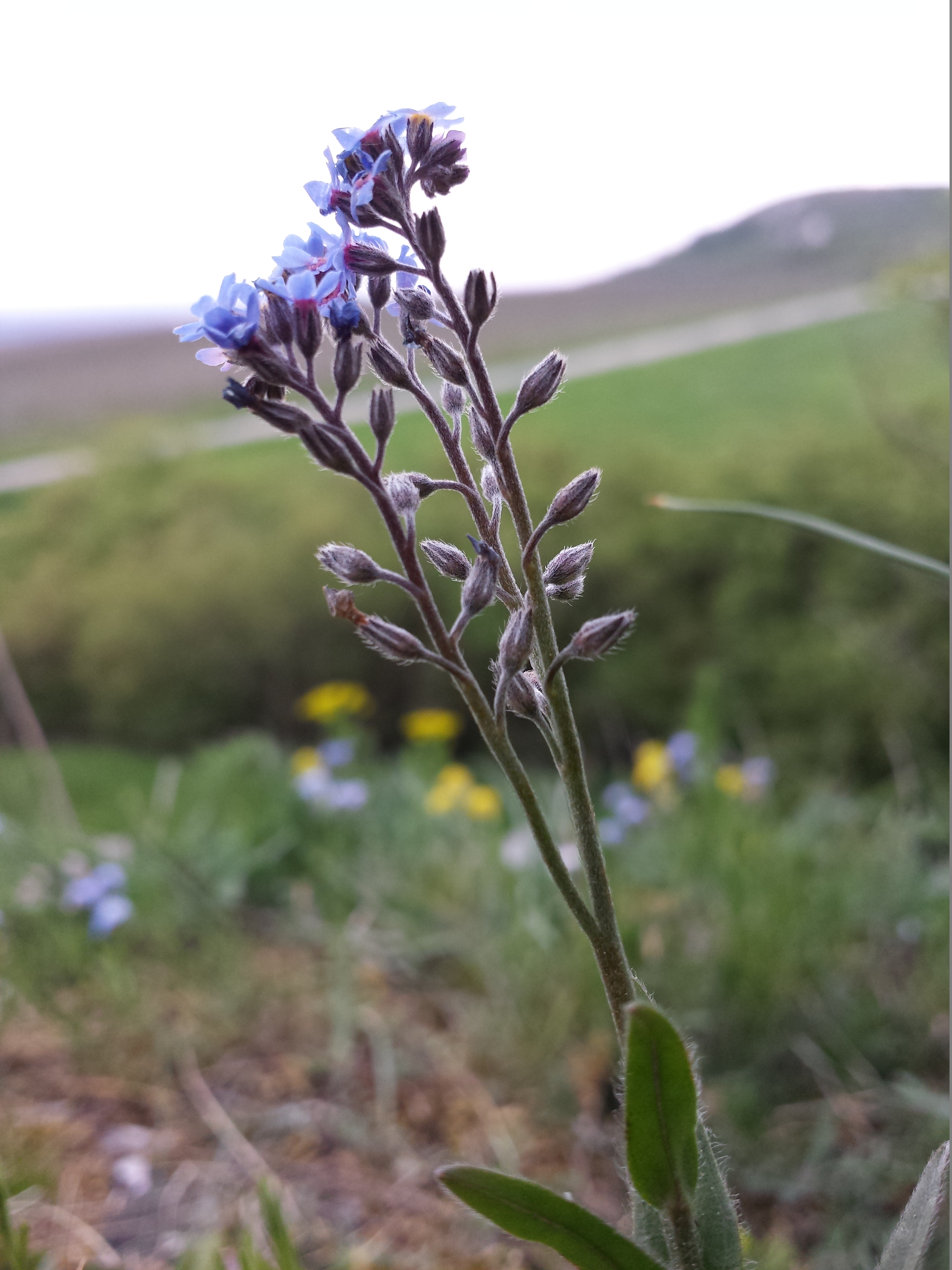 Inflorescence Taxonym: Myosotis stenophylla ss Fischer et al. EfÖLS 2008 ISBN 978-3-85474-187-9 Location: Kočičí skála near Mikulov, Jihomoravský kraj, Czech Republic - ca. 350 m a.s.l. Habitat: dry grassland on Limestone